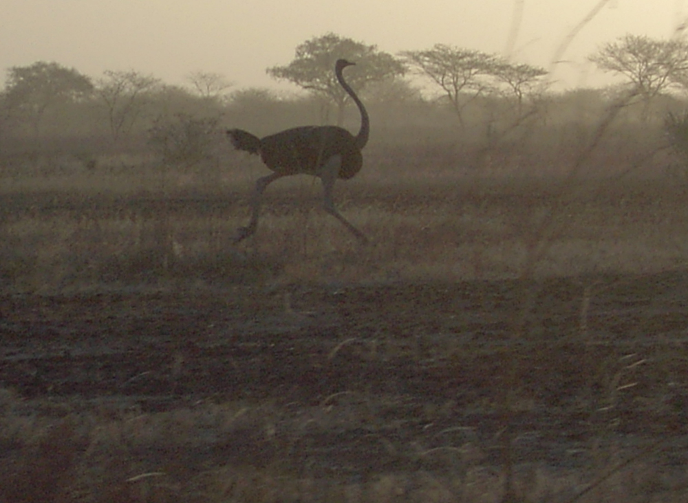 Ostrich in Waza National Park, Far North Province, Cameroon